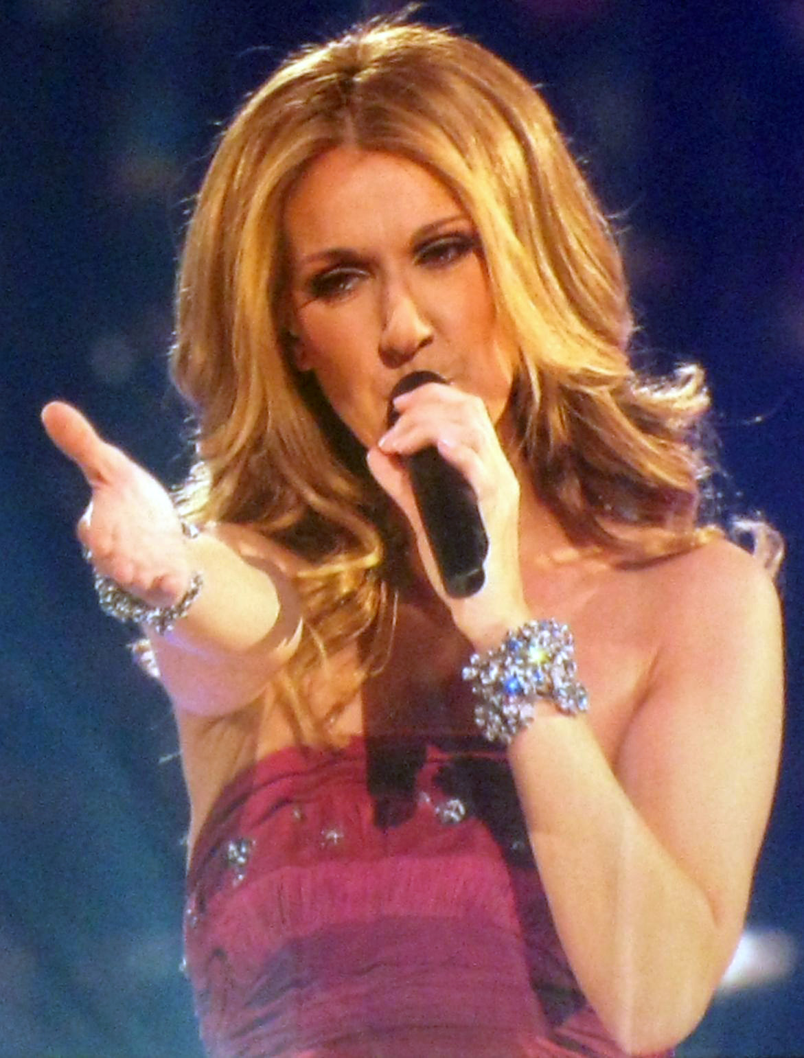 Celine Dion performing "Taking Chances" at Celine Dion 'Taking Chances Tour' Concert @ Bell Centre, Montreal, Canada in August, 2008.